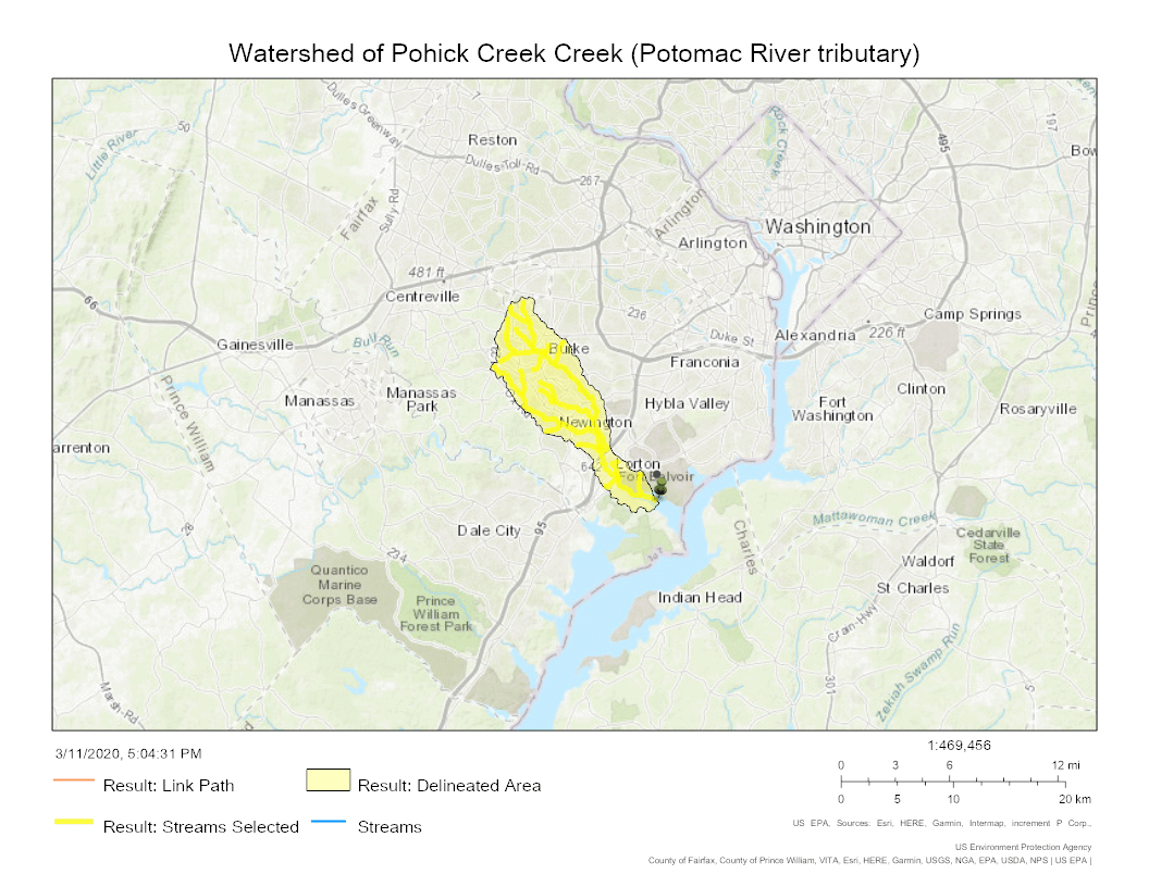 Map of the watershed of Pohick Creek (Potomac River tributary) in Fairfax County, Virginia.